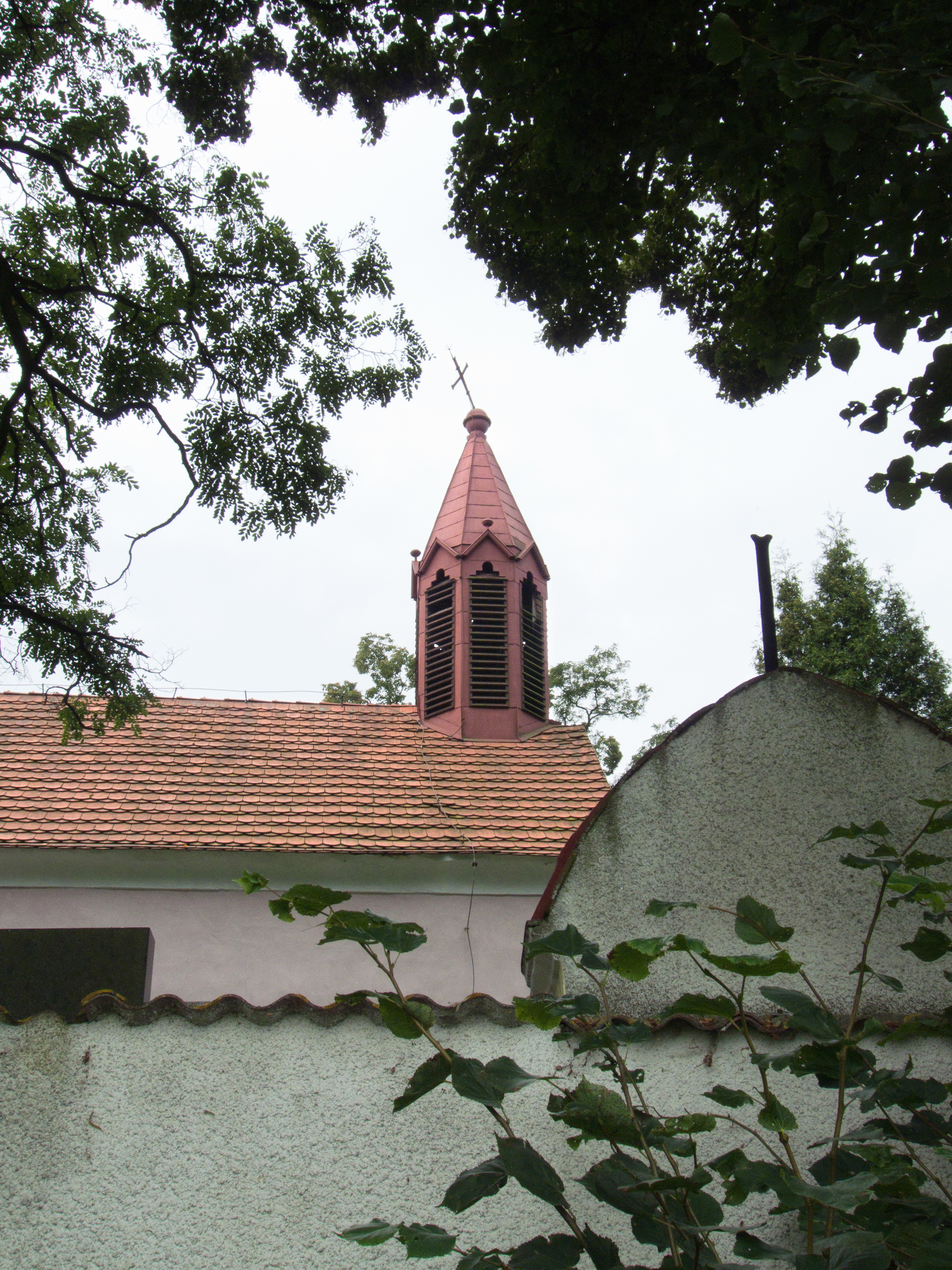 Tower of the Holy Trinity Church in the village of Neznašov, České Budějovice District, Czech Republic with a leaning cross